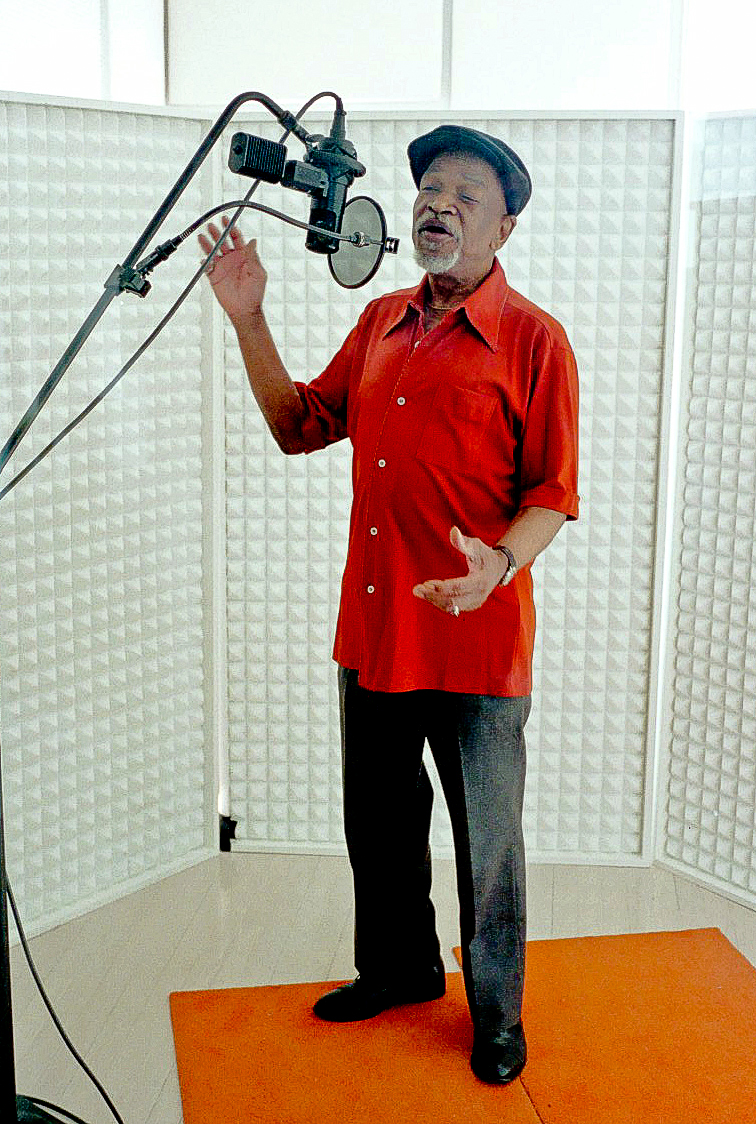 Jimmy Norman records in studio in 2004. Photo by Frank Beacham (